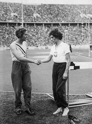 Berlin olympics 100 meter wommen - two best, Helen Stephens of the USA and Stella Walasiewicz of Poland